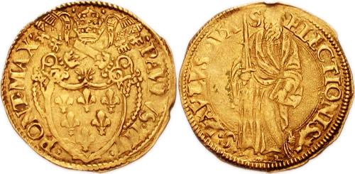 Italy, Papal States. Paulus III Farnese. 1534-1549. AV Scudo (26mm, 3.38 g). Rome mint. Farnese coat-of-arms surmounted by papal tiara and crossed keys St. Paul standing facing, holding upright sword and book. Cf. CNI XV pg. 413, 96; cf. Muntoni I pg. 165, 31; Berman 905.